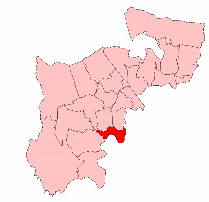 A map of Brentford and Chiswick constituency within Middlesex, as it existed from 1945 to 1950.